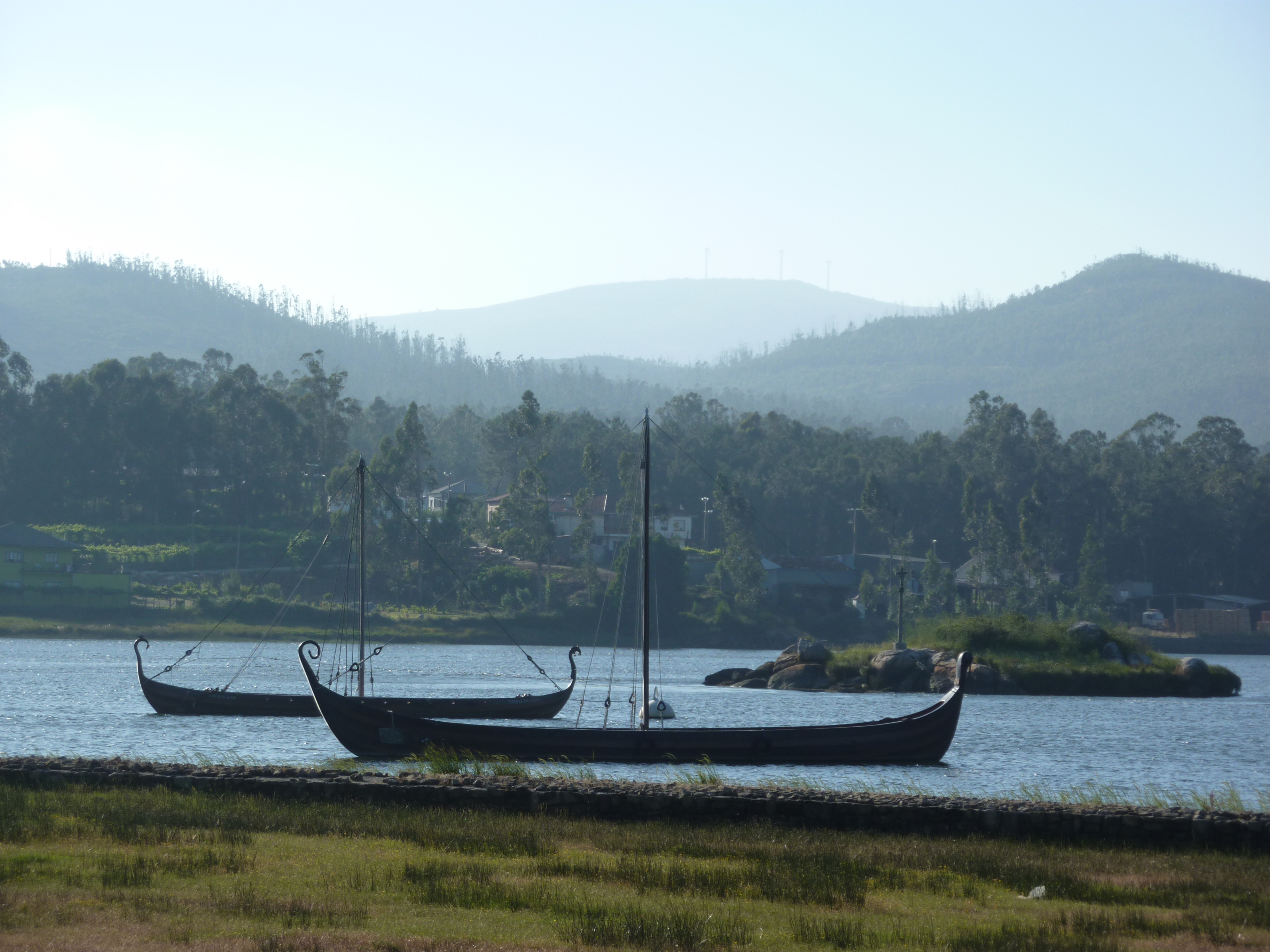 Replicates of Viking age dragon ships near the castle of Torres de Oeste, Catoira, Galicia.